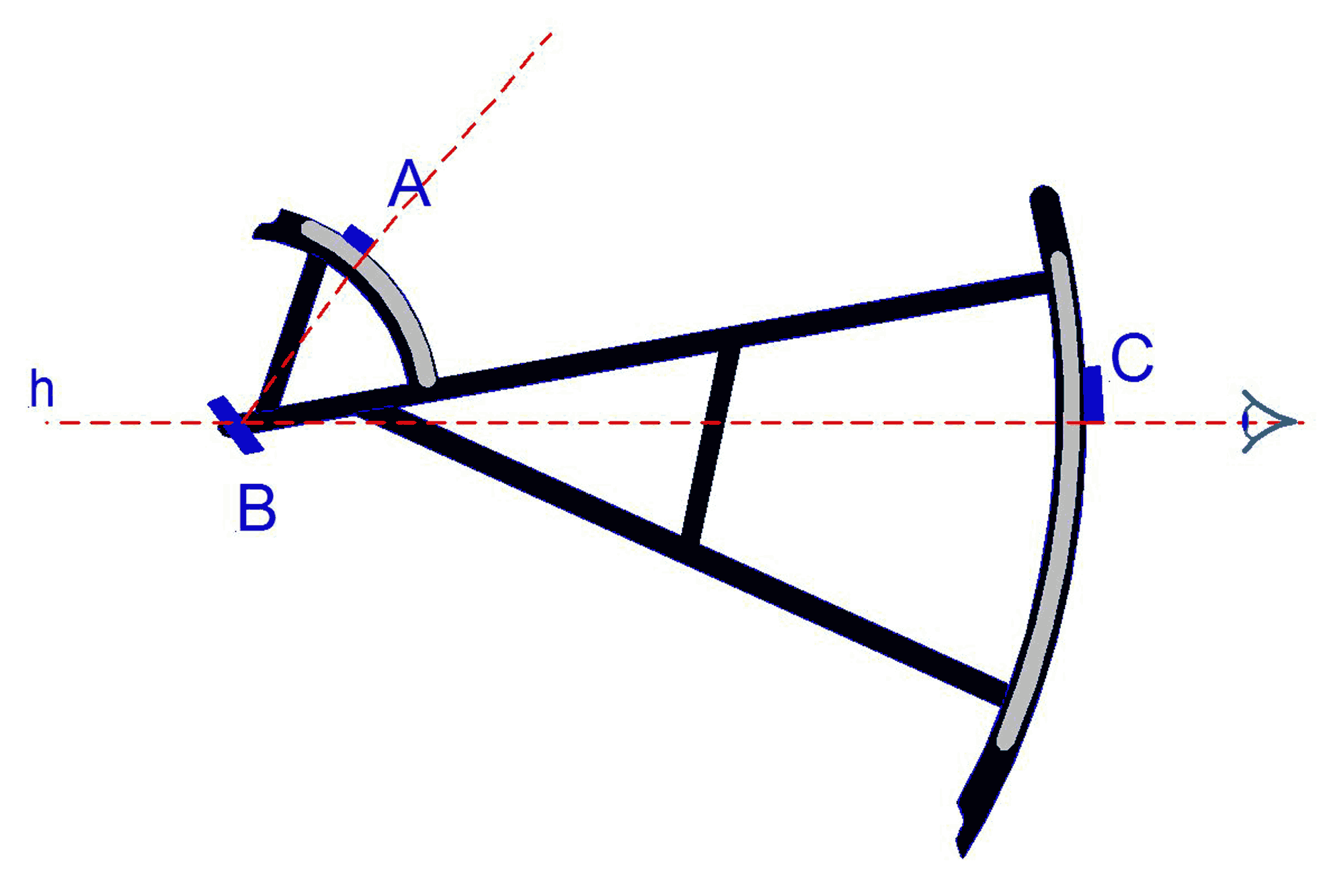 Drawing of a Davis Quadrant or Backstaff